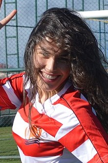 Serenay Aktaş of 1207 Antalyaspor (February 5, 2013). Cropped from original image.